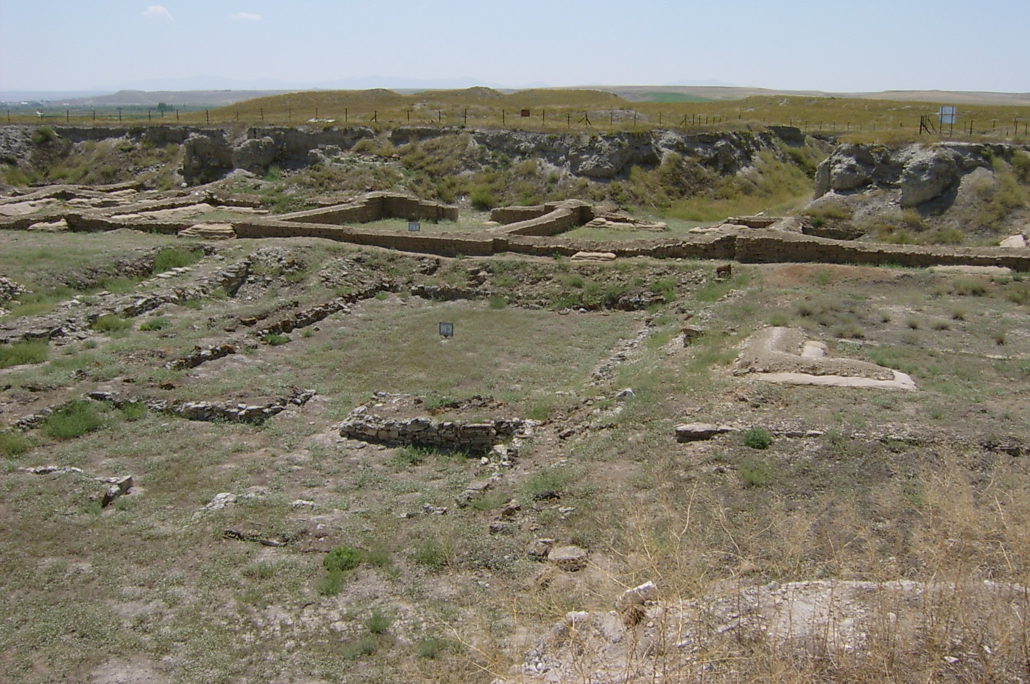 Ruins of Gordion, capital of ancient Phrygia